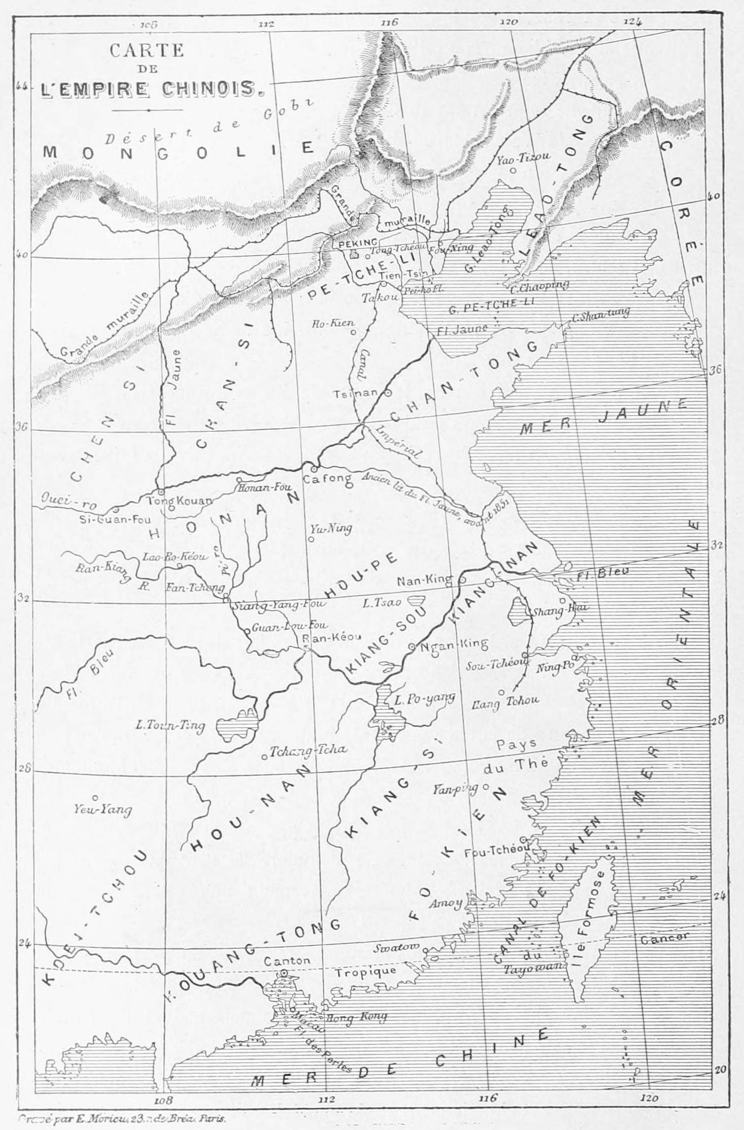 image of File:Verne - Les Tribulations d’un Chinois en Chine.djvu, page 34